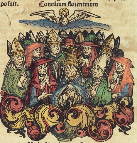 Synod of Florence, Wood cut from the Nuremberg Chronicle (Latin copy in Sao Paulo)